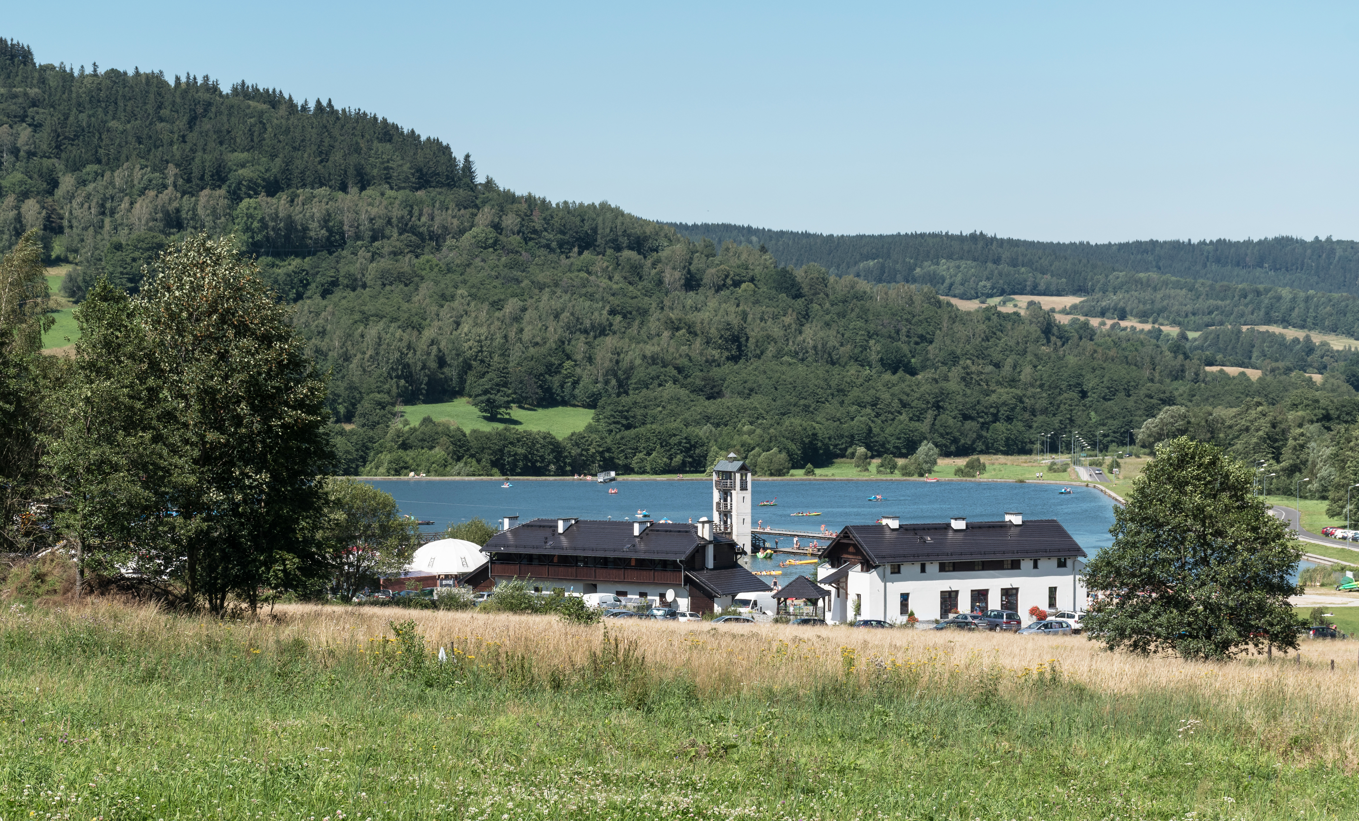 Reservoir in Stara Morawa